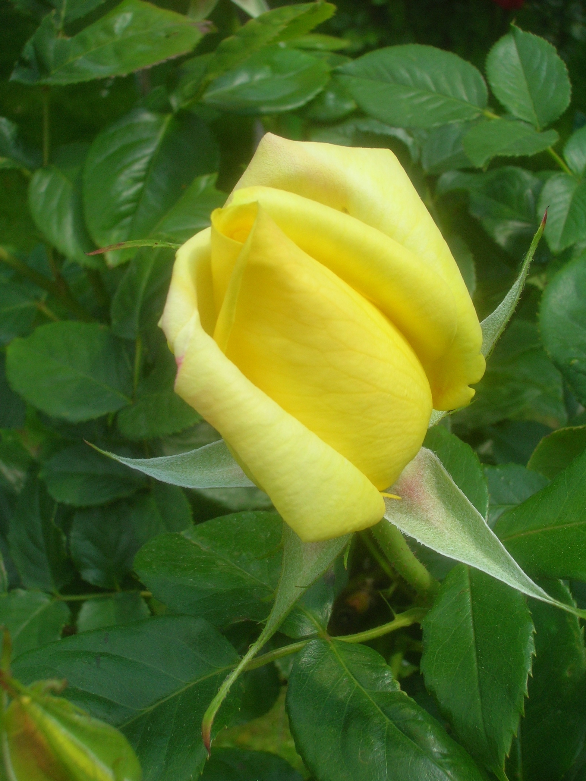 Rosa 'Zitronenjette' in the Volksgarten in Vienna. Identified by sign.